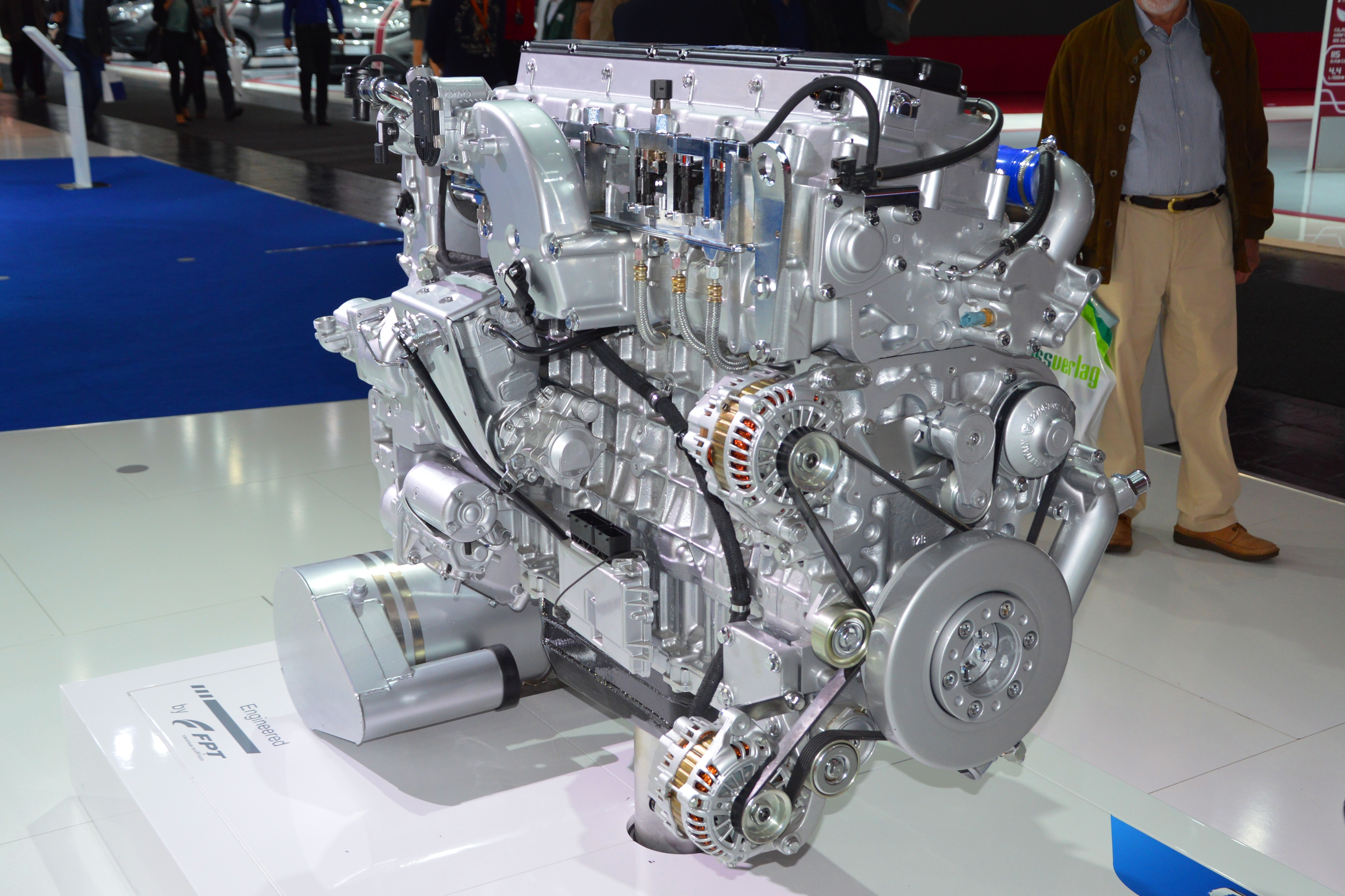 Iveco Cursor 8. Euro VI CNG/LNG engine. 6 in-line cylinders; 7,8 l. Otto stochiometric combustion. Maximum power: 243 kW (330 hp).